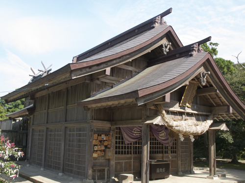 The cross shot of Hakuto Shrine.